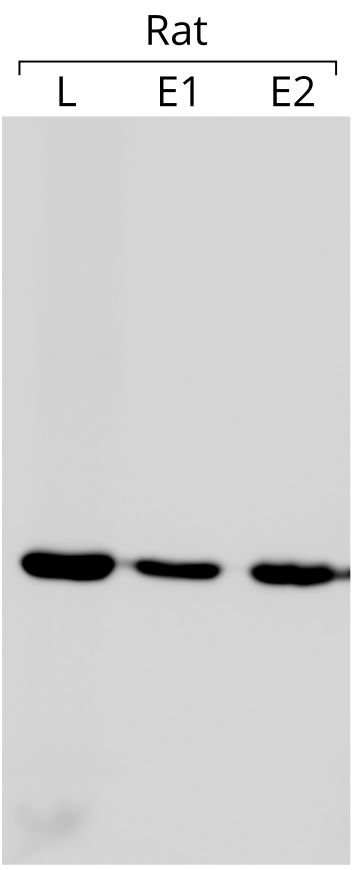 This image was clipped from a larger image, Fig. 1 published in: Sharma S., Hanukoglu I. Mapping the sites of localization of epithelial sodium channel (ENaC) and CFTR in segments of the mammalian epididymis. J. Mol. Histol. 50:141–154, 2019. MW of cytoplasmic actin is ~42 kDa.